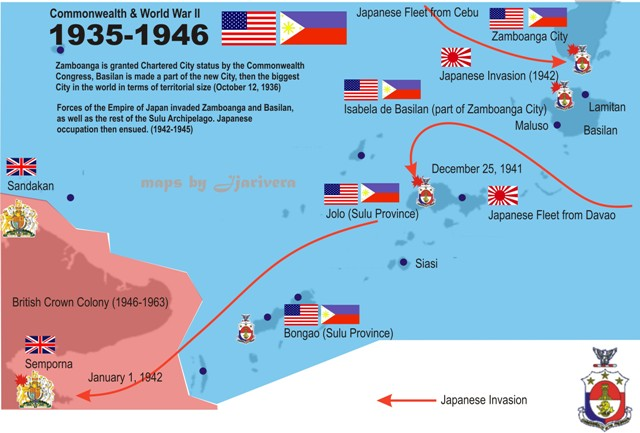 1935-1946 map of Sulu archipelago, Philippines